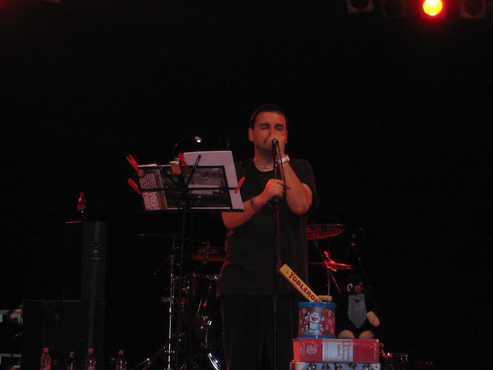 Max Collini of the band Offlaga Disco Pax playing live in Cremona, Italy.